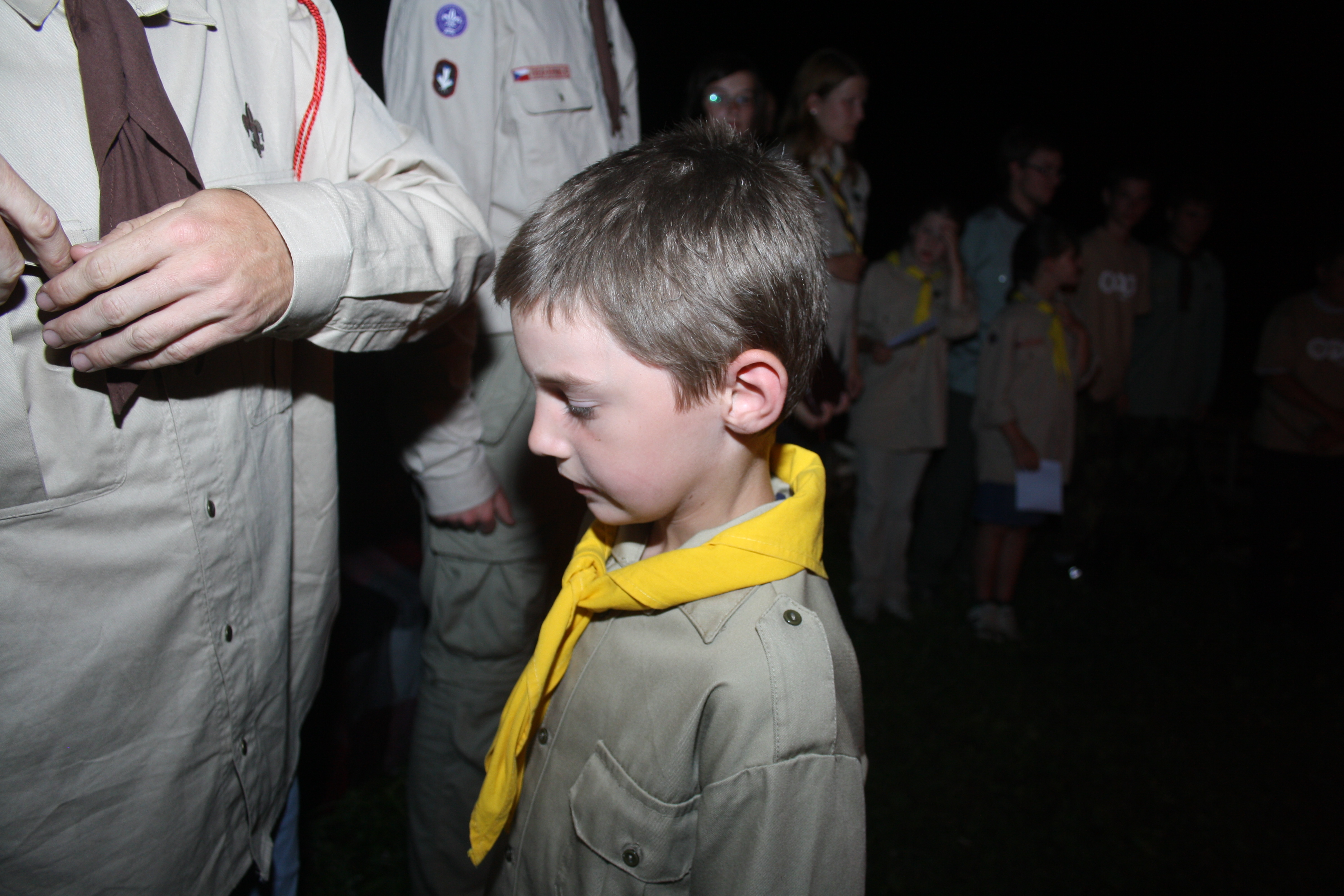 Giving of Scout shawl in the Czech Republic.